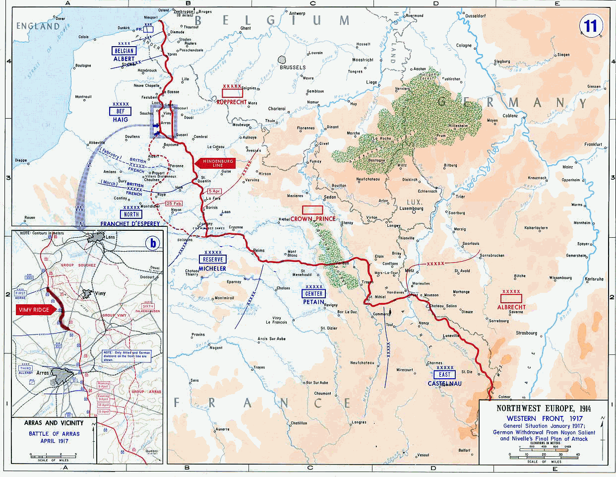 Map of the Western Front, 1917 From the History Department of the US Military Academy West Point - [1] First uploaded in English Wikipedia as Image:Western_Front_1917.jpg by User:Ghepeu (10:53, 13 January 2006 . . Ghepeu (Talk) . . 1242x961 (233585 bytes))